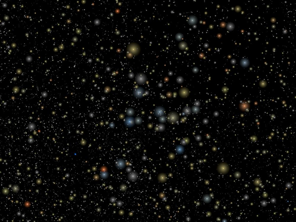 Mel 111, open cluster in Coma Berenices